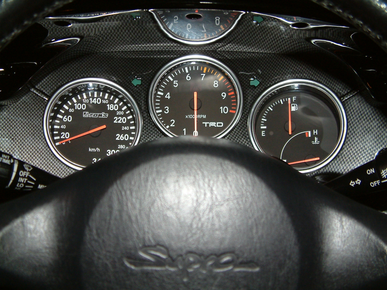 Installed with my new CF dash and TRD chrome gauge bezels